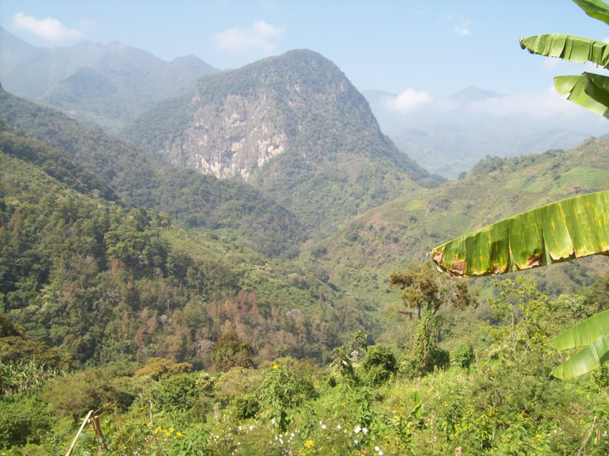 Cerro de Algodón, San José Chinantequilla, Oaxaca